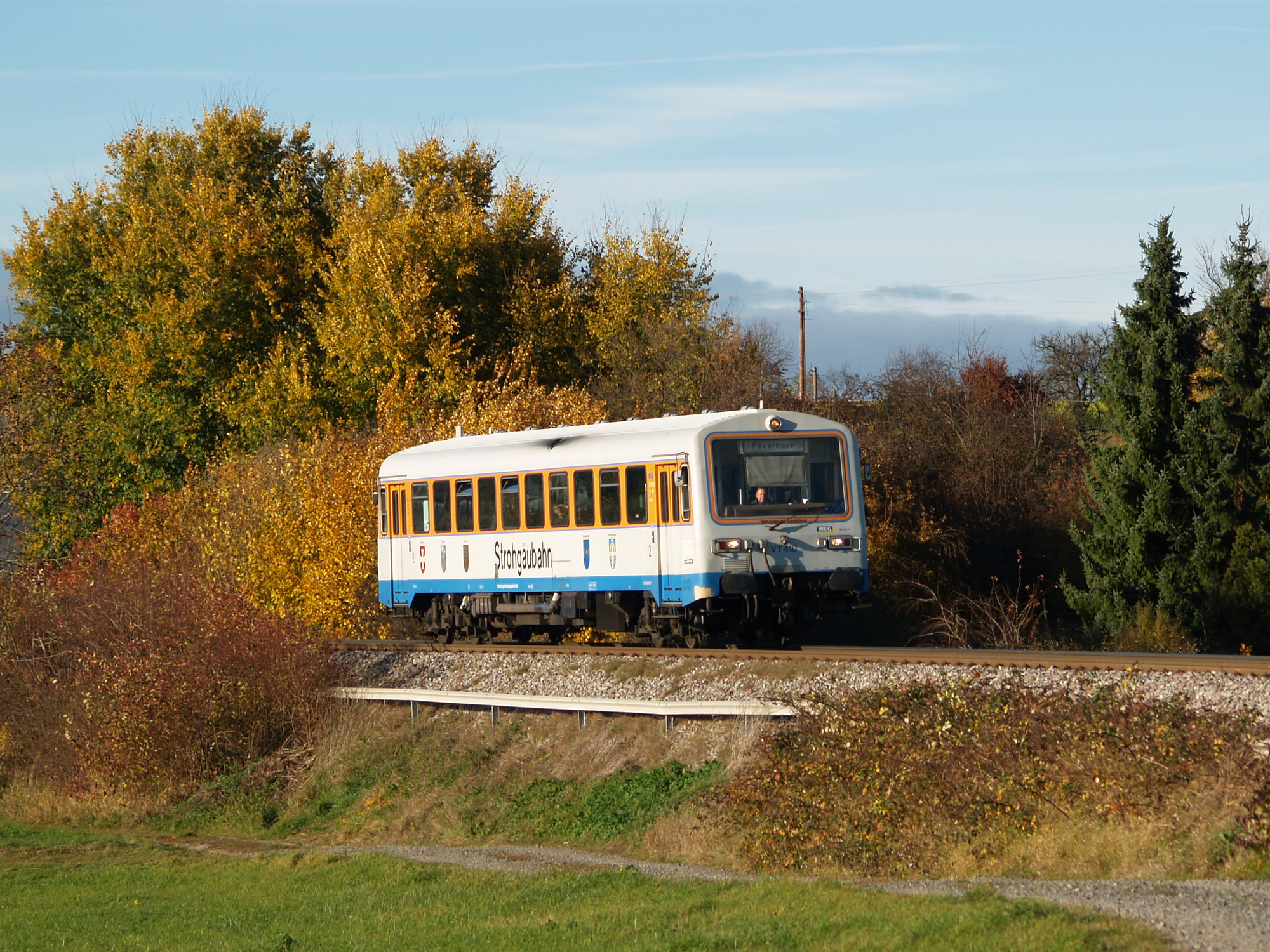 VT 410 WEG near Korntal, November 5th 2010.